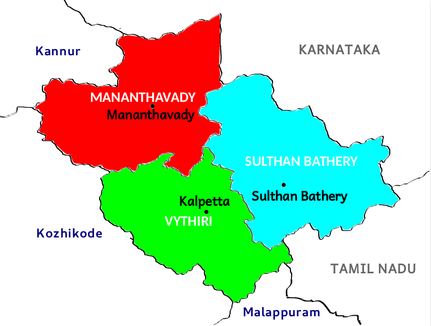 It is a political map of the subdistricts of Wayanad district, Kerala, India